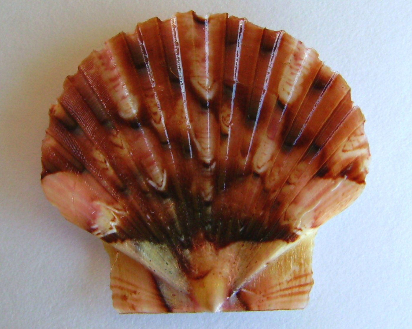 Pecten novaezelandiae New Zealand scallop (flat valve) dredged from the east coast of Northland , New Zealand.